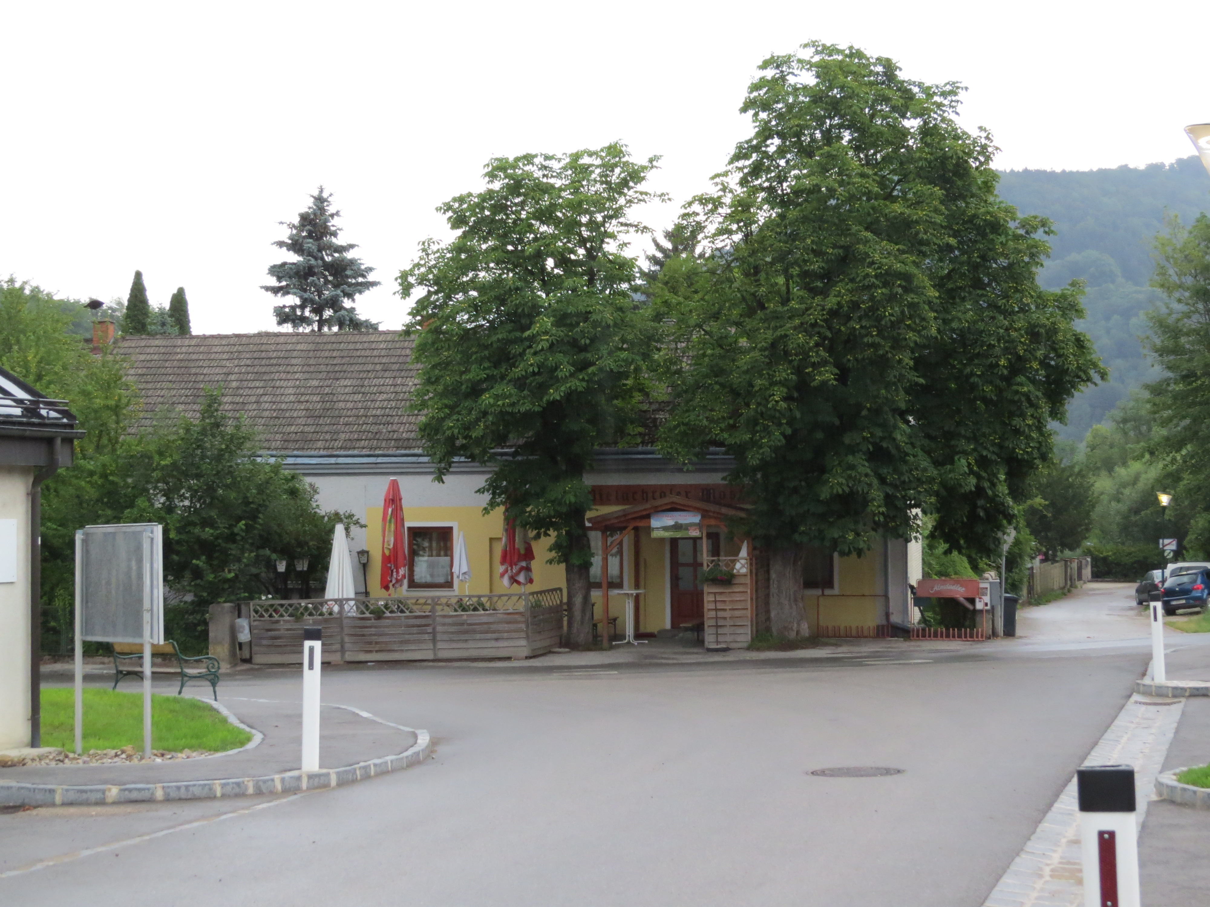 Pielachtaler Moststube at Bahnhof Loich, Austria